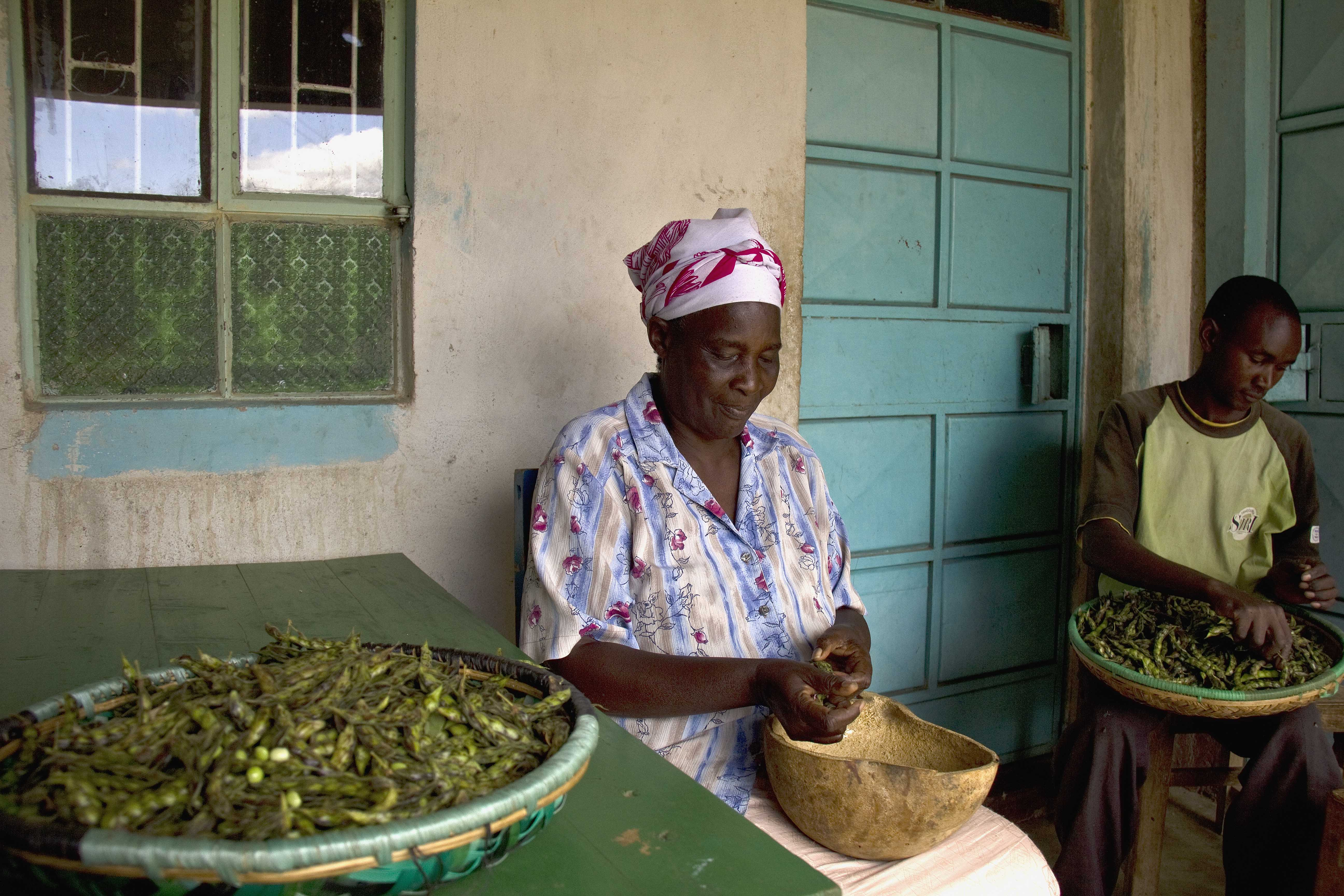 Shelling pigeonpea means extra money at the marketplace for Priscilla Mutie, farmer in Muuni village in Eastern Kenya